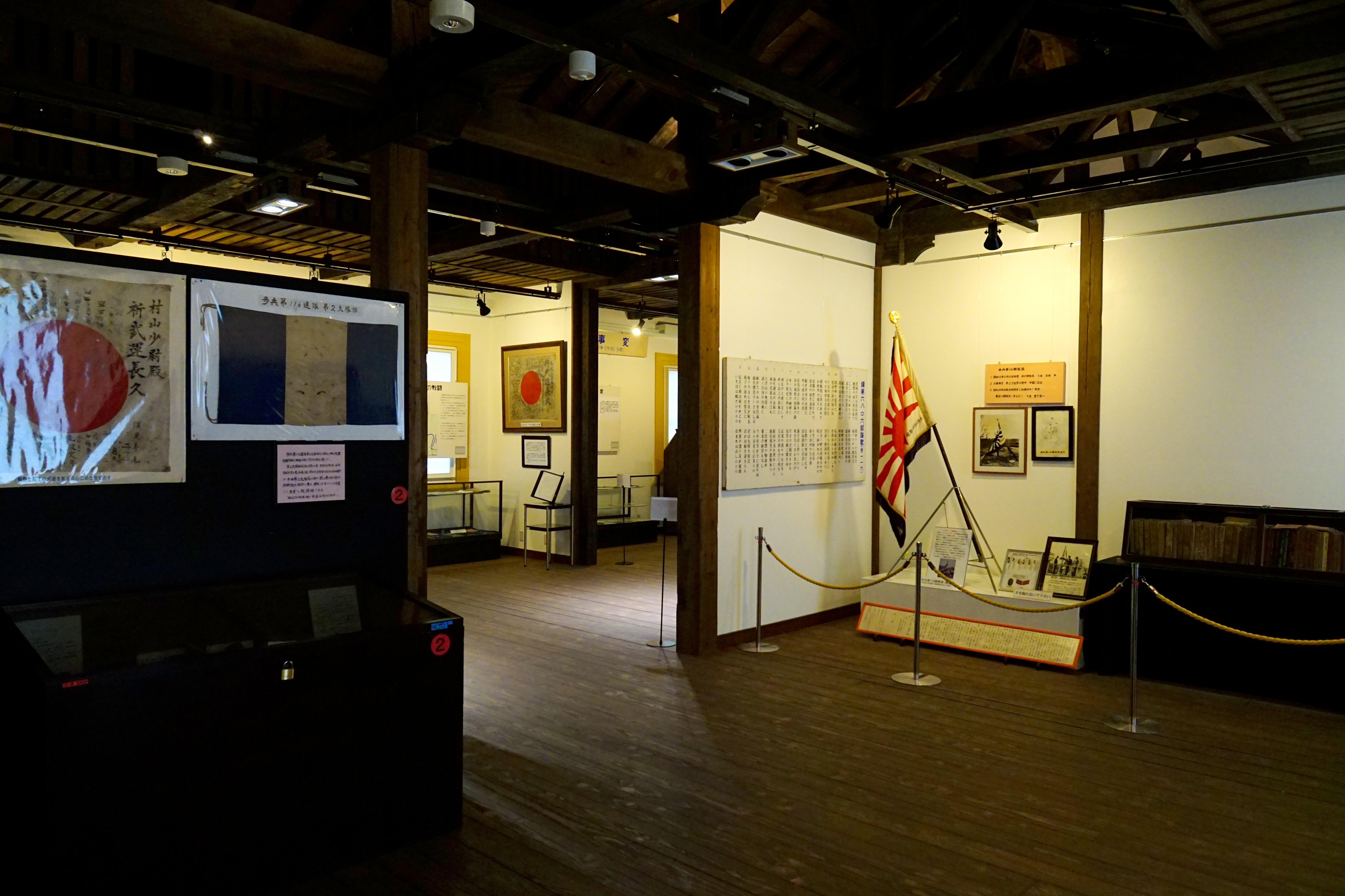 White wall barracks archives museum of public relations in Shibata, Niigata prefecture, Japan.